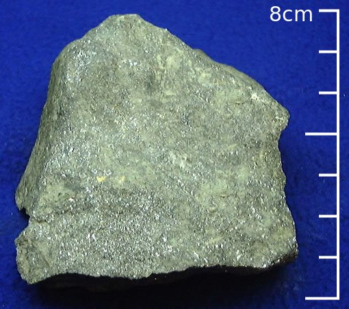 Lead ore